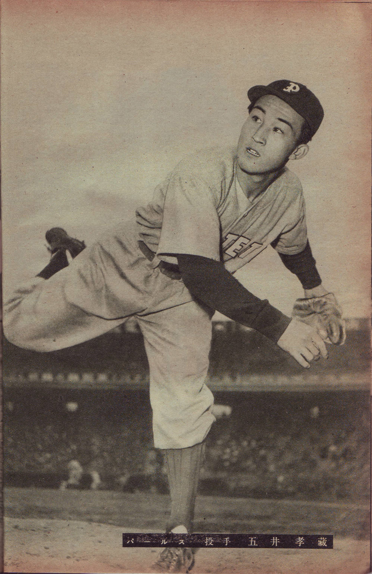 Kozo Goi (Kintetsu Pearls). taken in 1950.